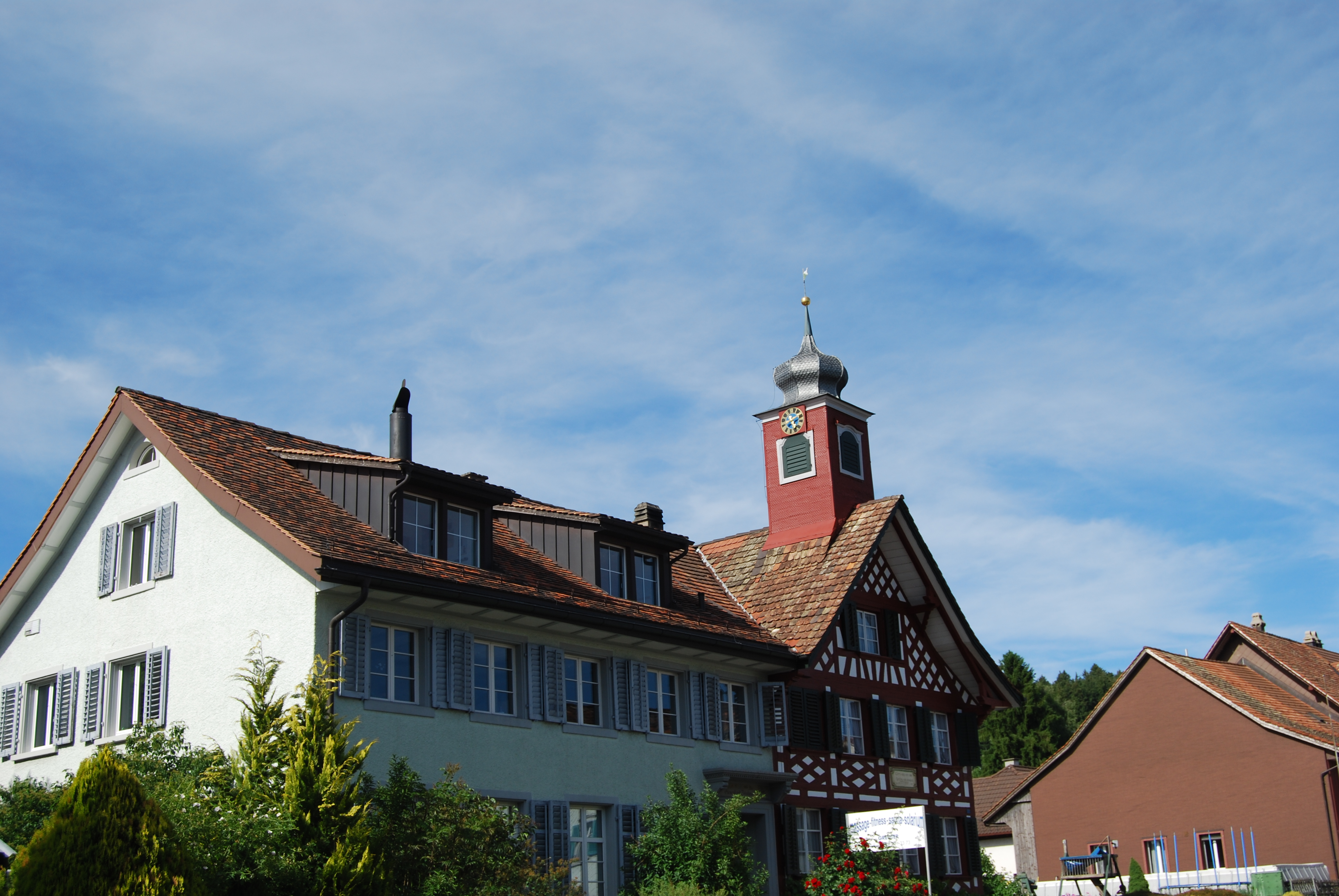 Old school building Eschlikon, canton of Thurgovia, Switzerland